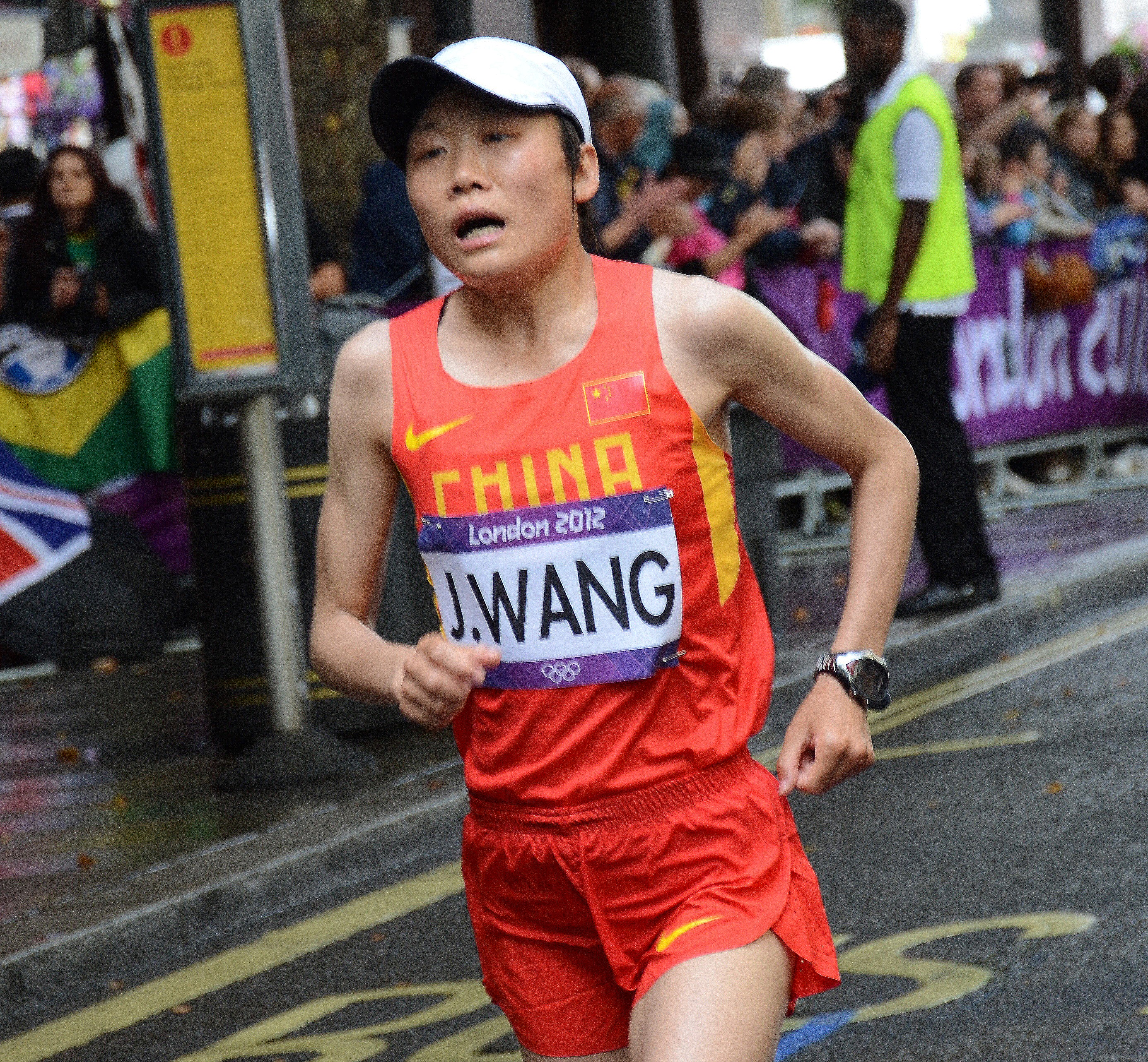 Wang Jiali (China) in the marathon (w) at the Olympic Games 2012